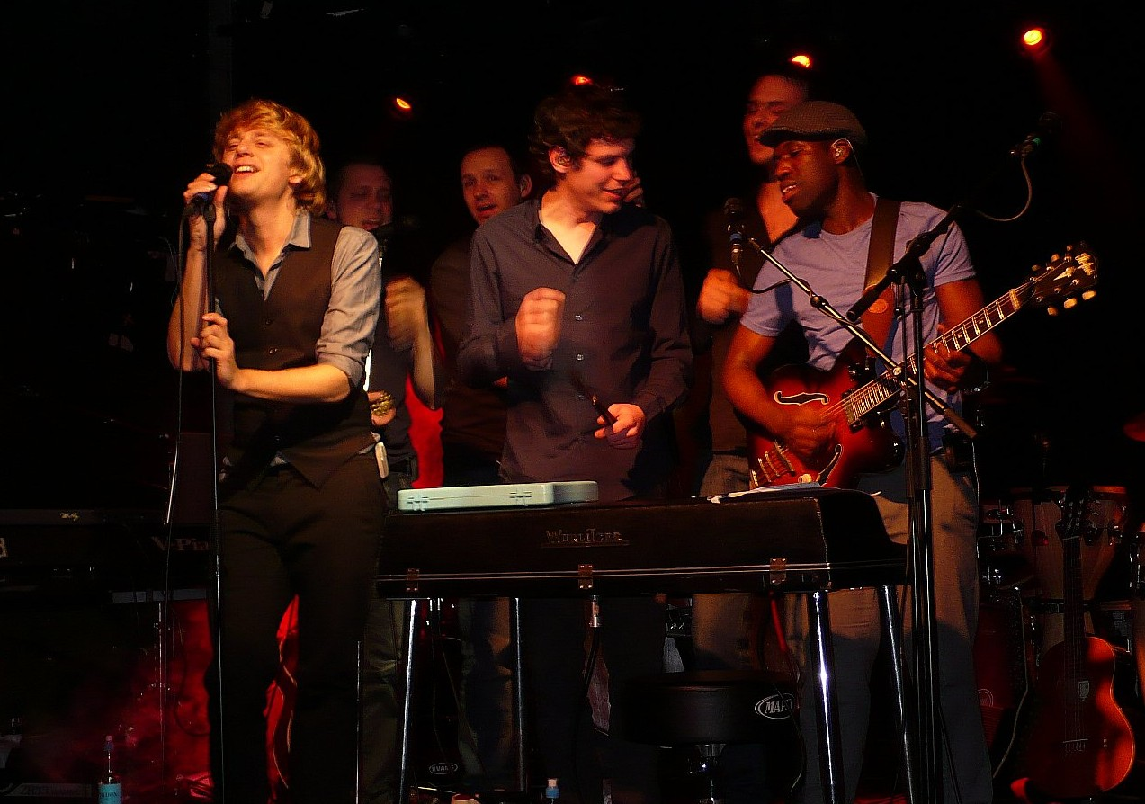 Wouter Hamel and band performing at the Thekla, in Bristol, UK - 4th February 2010